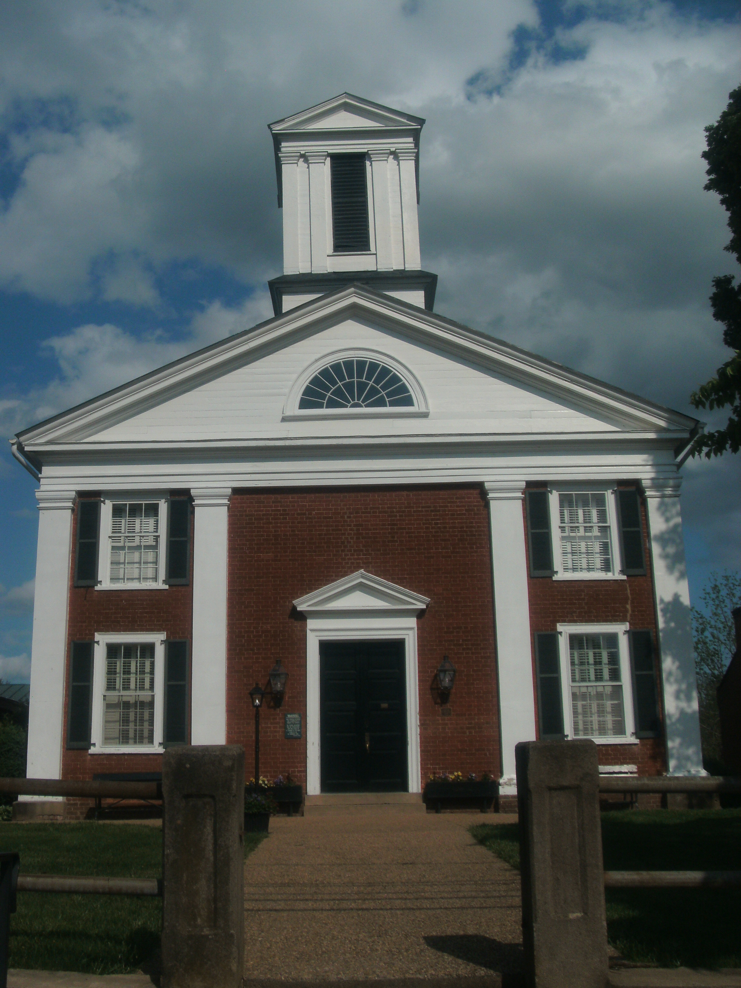 Taken by me in May, 2016 GEDSC DIGITAL CAMERA